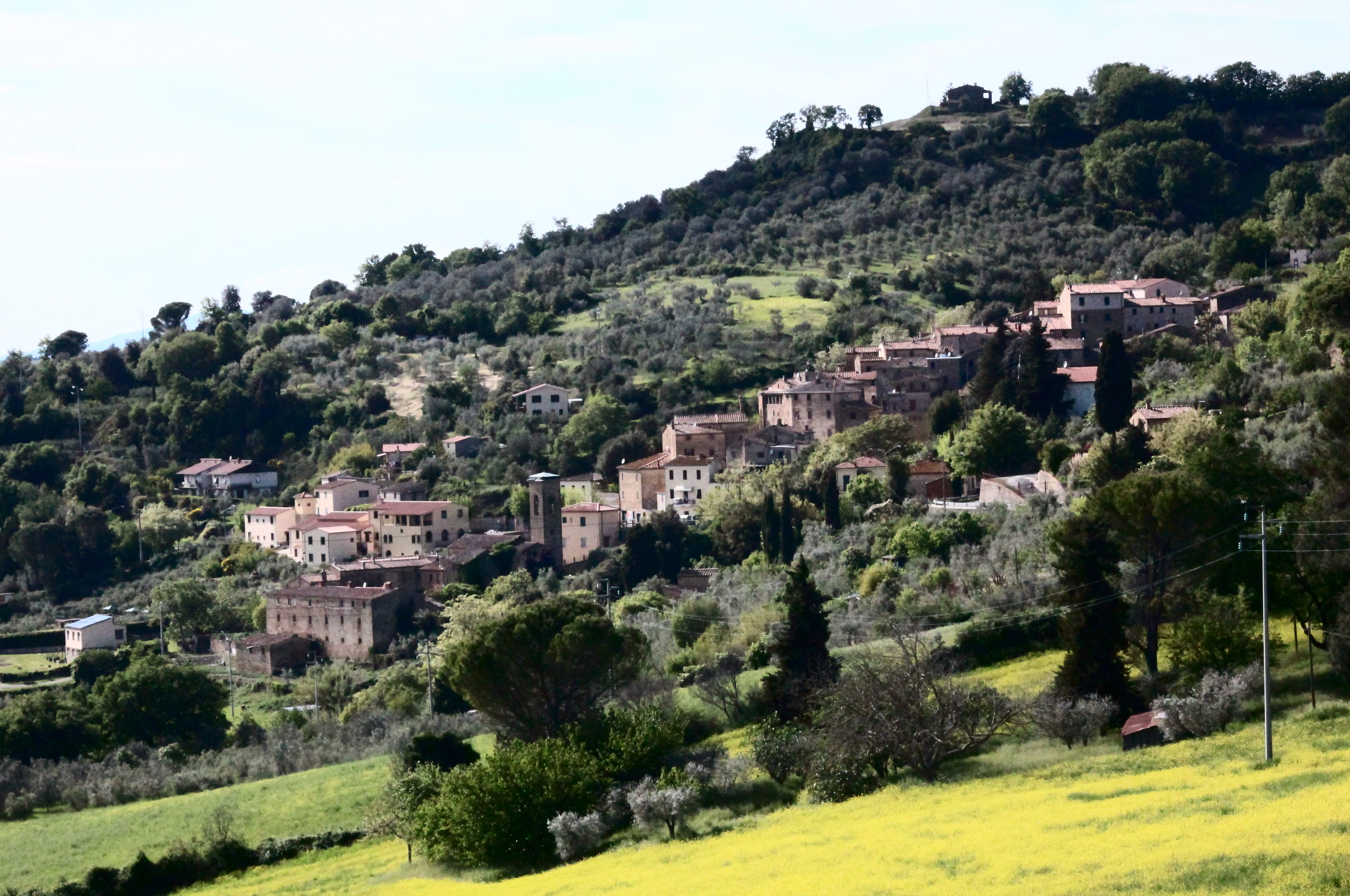 San Dalmazio, hamlet of Pomarance, Province of Pisa, Tuscany, Italy